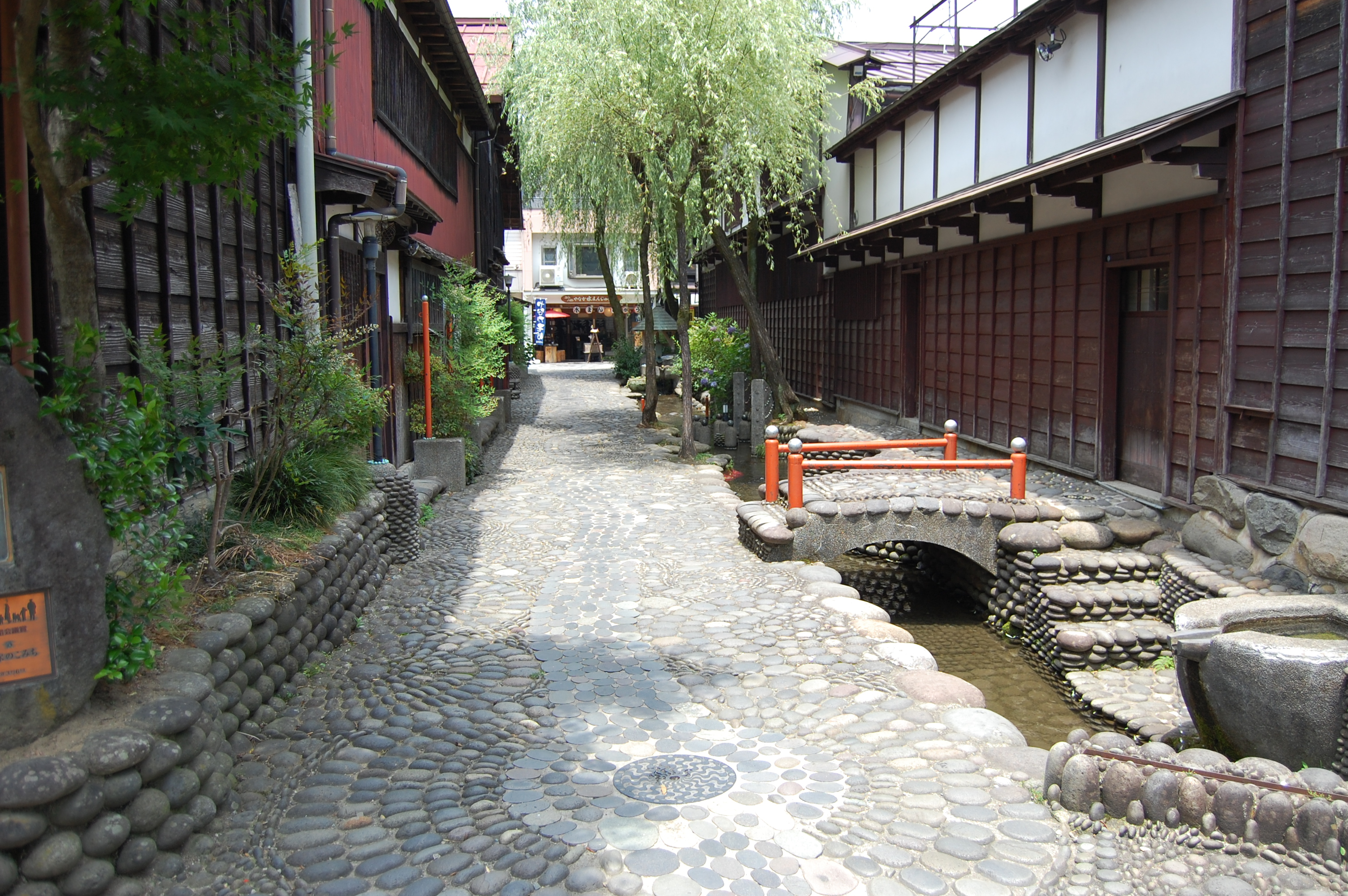 YANAKA_MIZUNO_KOMICHI